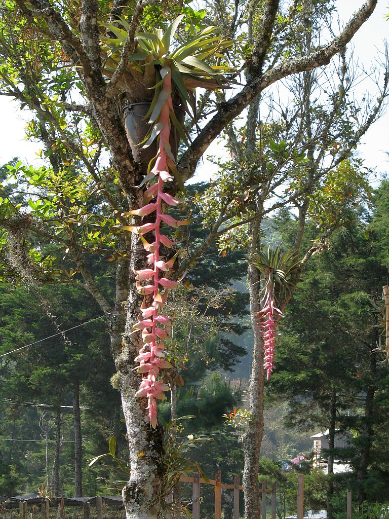 Tillandsia eizii in cultivation in a nursery near Guatemala City, Guatemala; 1965m.